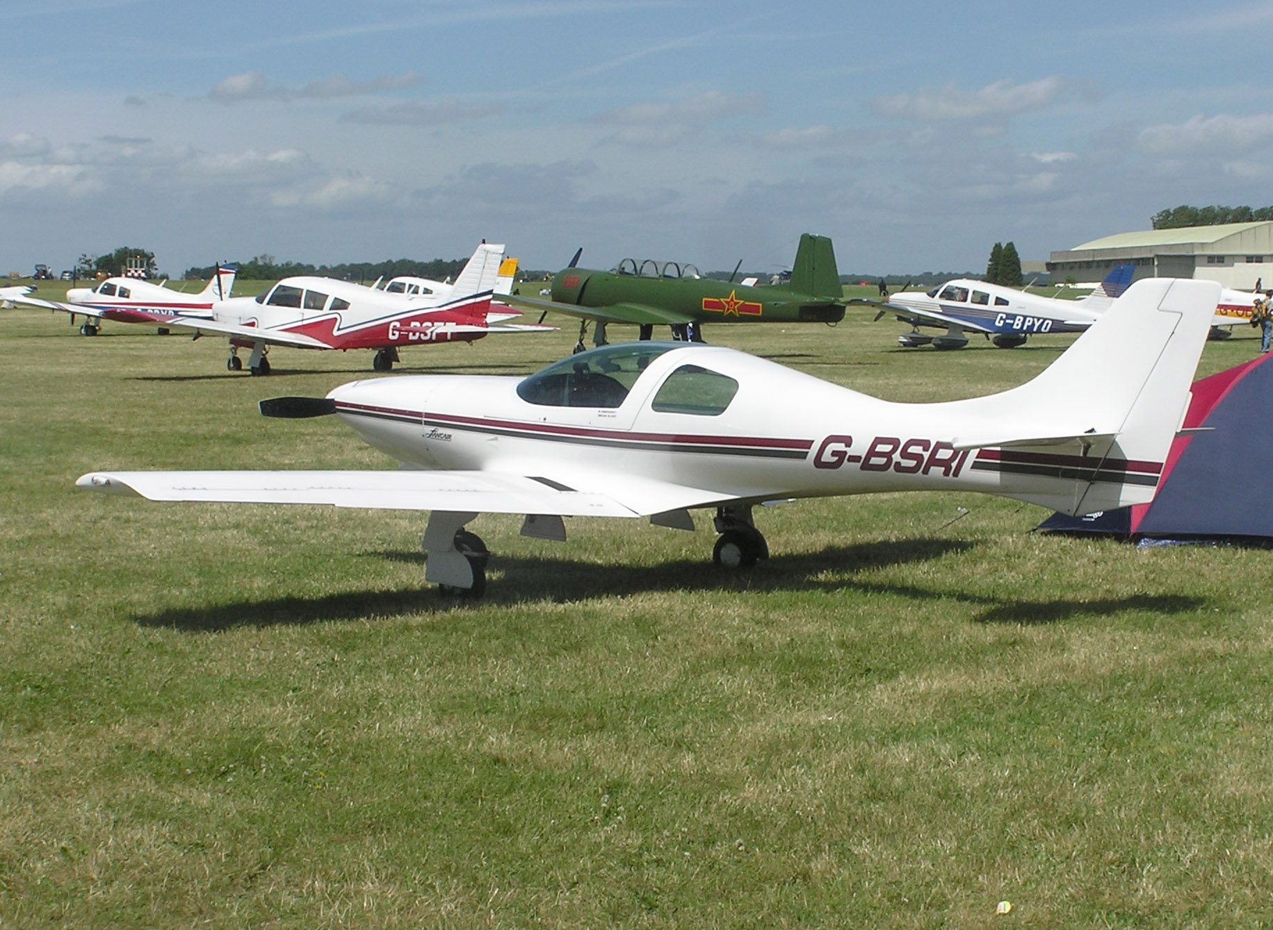 Lancair 235 (UK registration G-BSRI), at Kemble Airfield, Gloucestershire, England. Photographed by Adrian Pingstone in July 2005 and placed in the public domain.